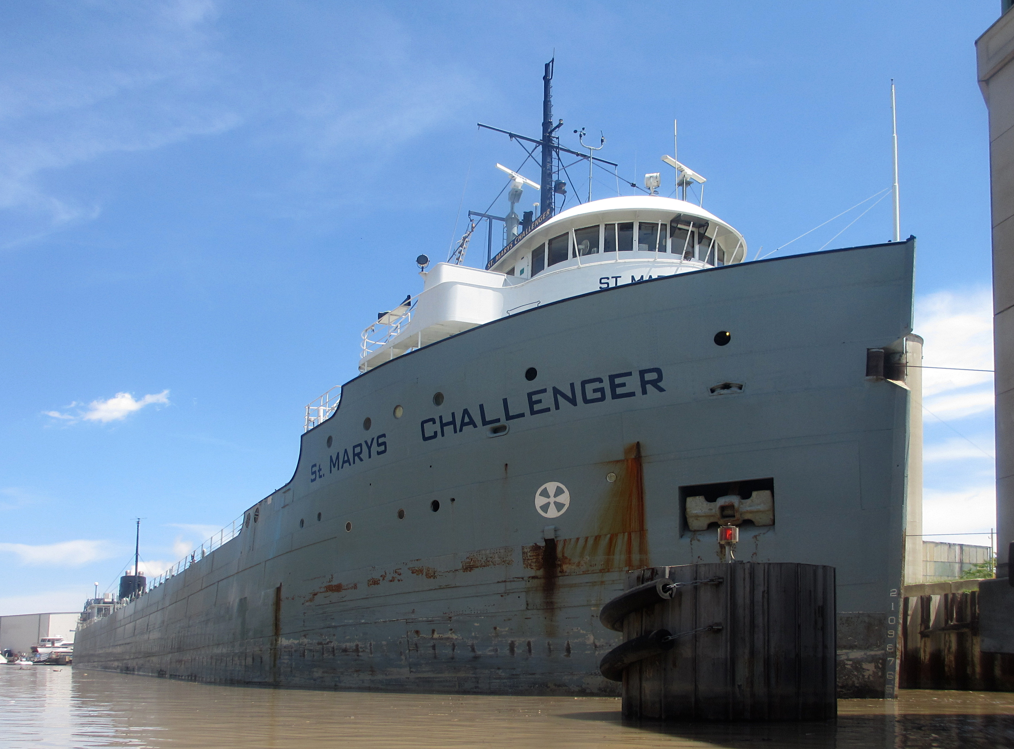 Oldest working Great Lakes freighter, St Marys Challenger built in 1906 At Milwaukee, June 17, 2012